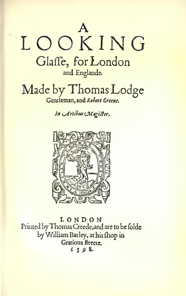 Title page of "Looking Glass" by Thomas Lodge and Robert Greene, 1598